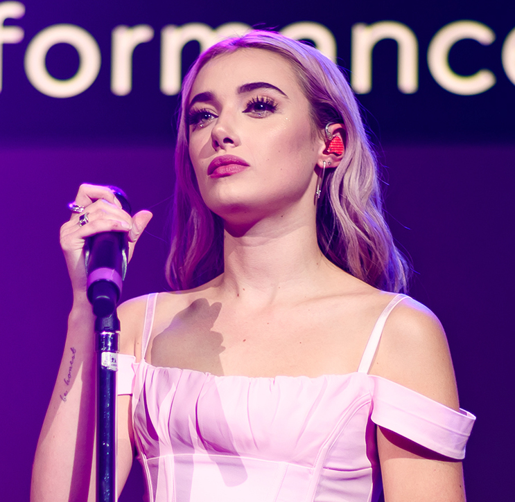 Olivia O'Brien performing live at the ACURAxGENIUS event at Mack Sennett Studios on 09/26/2019.